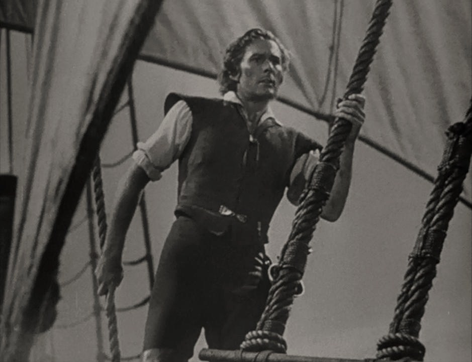 Errol Flynn in The Sea Hawk - trailer (cropped screenshot)